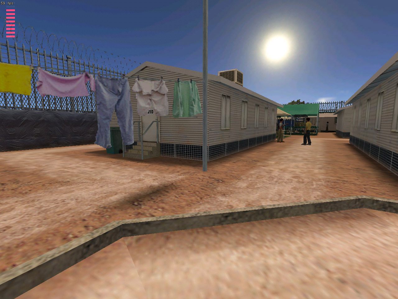 Screenshot from the unfinished point-and-click adventure video game Escape from Woomera